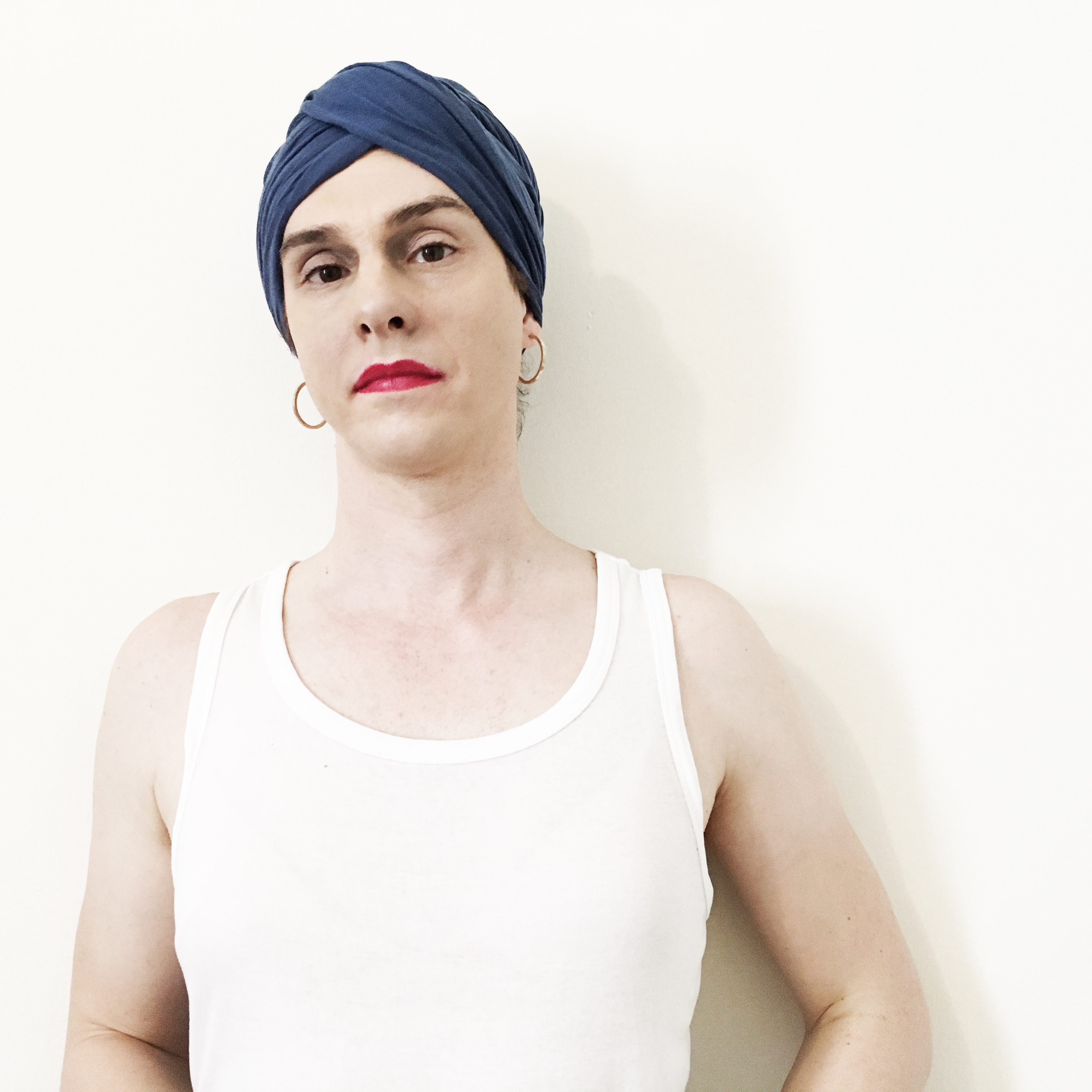 Photo of Gavin Rayna in the summer of 2017